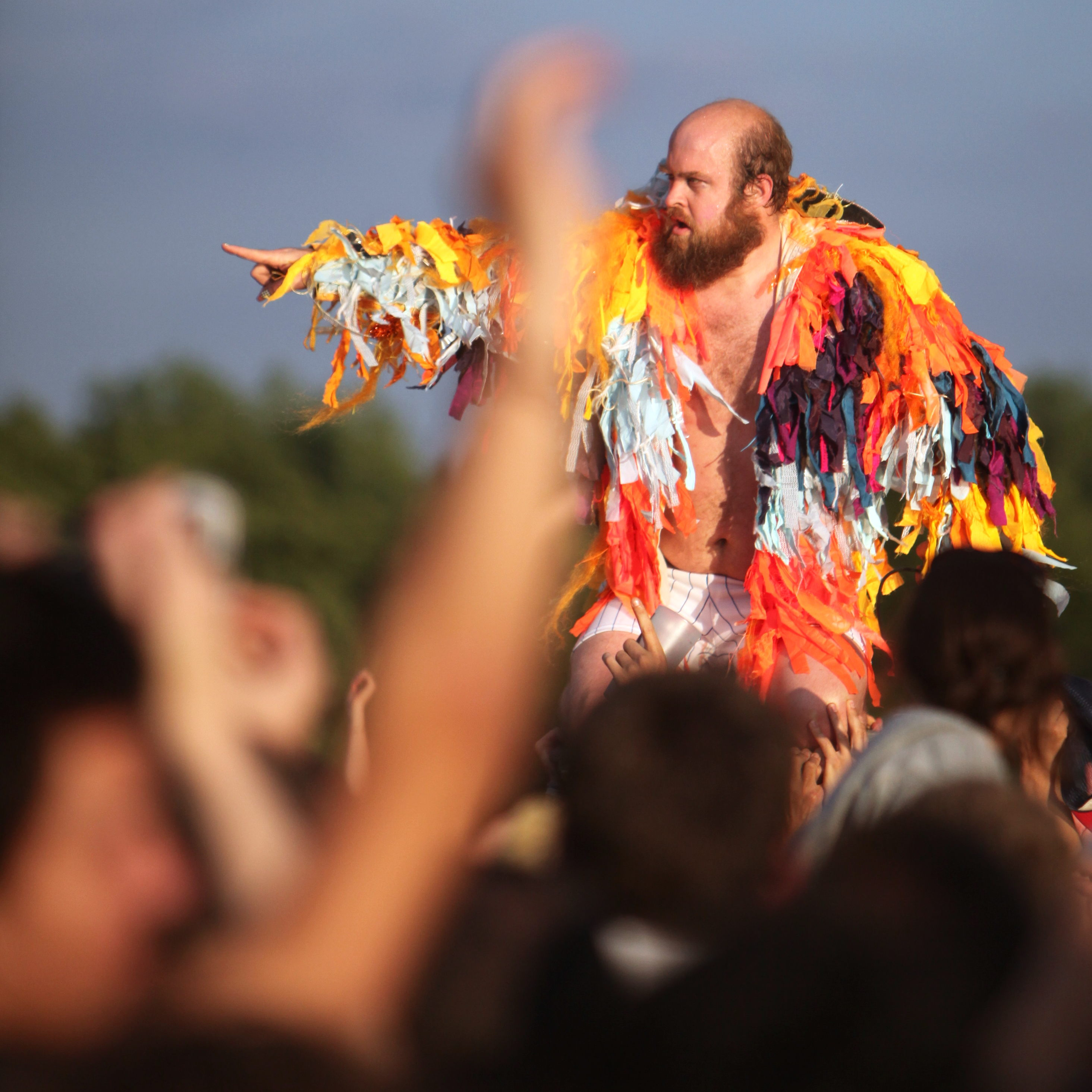 Les Savy Fav at the Eurockéennes de Belfort 2011 The making of this document was supported by Wikimedia CH. (Submit your project!) For all the files concerned, please see the category Supported by Wikimedia CH.